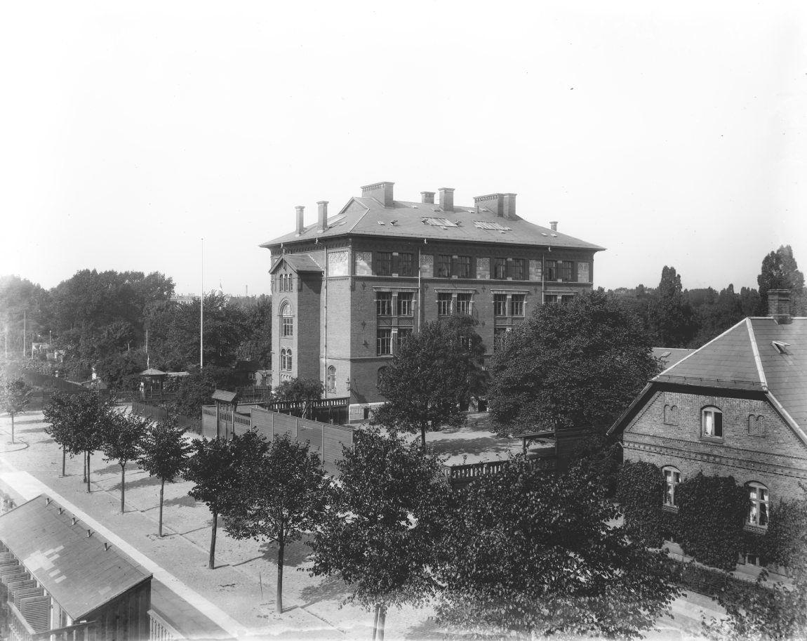 Hans Tavsens Gade with Hans Tavsens Skole in Nørrebro, Copenhagen, Denmark